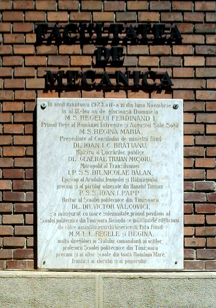 Commemorative plaque of the inauguration of the main building of Mechanical Faculty of Timisoara.